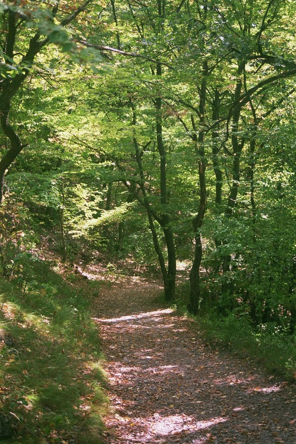 Beech forest in Malé Karpaty, Western Slovakia